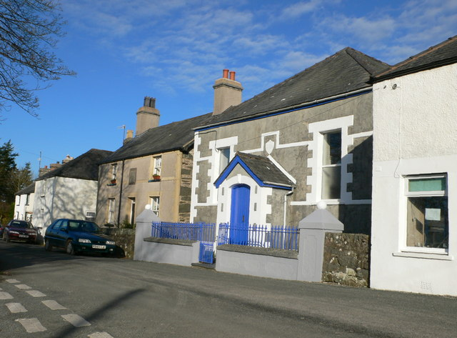 Capel Annibynwyr, Nebo Nonconformist chapel in Nebo.